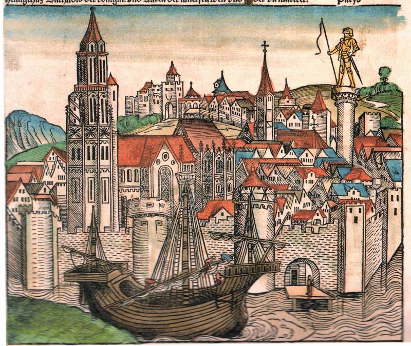 Woodcut of Paris from the Nuremberg Chronicle.